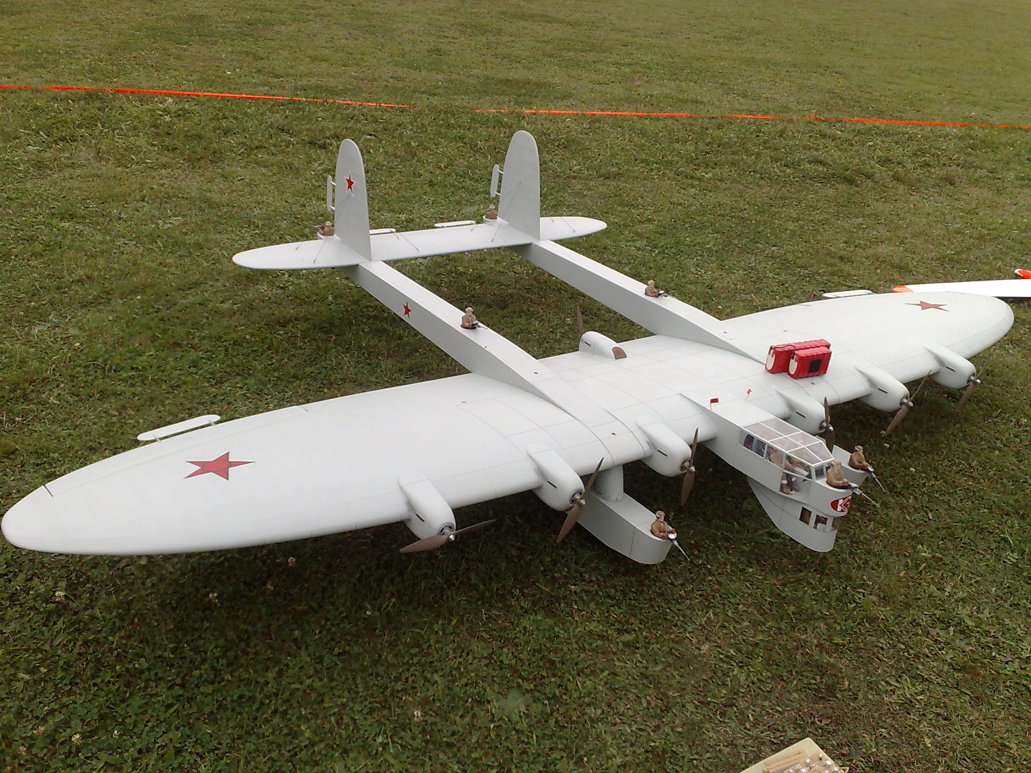 this a RC replica of Kalinin K-7,Soviet heavy bomber of 1930's